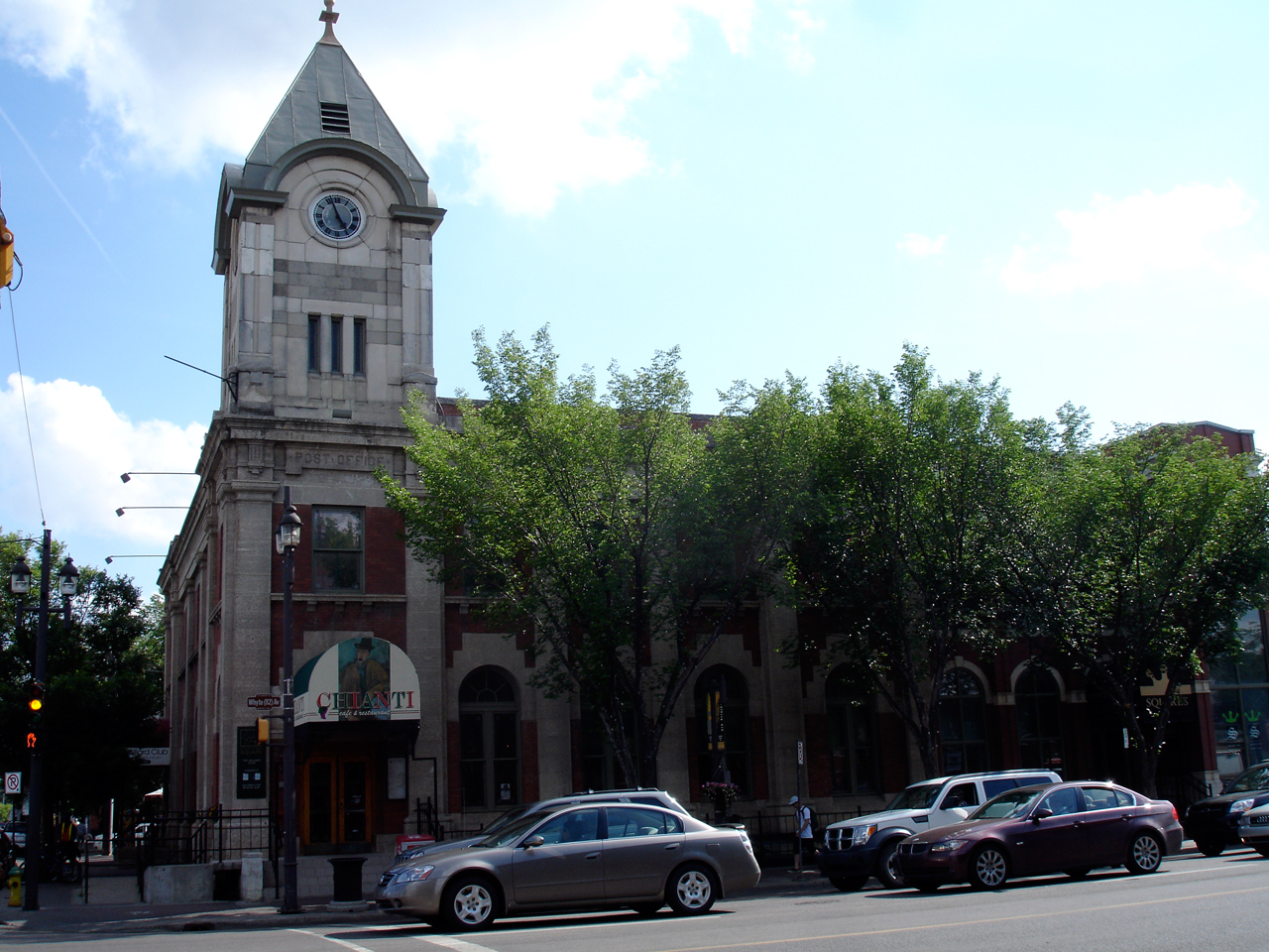 The Strathcona Public Building, a former post office on Whyte Avenue in Edmonton, Alberta, Canada.